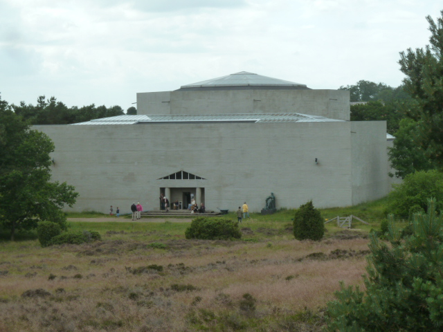 Tegners Museum North of Copenhagen in Denmark